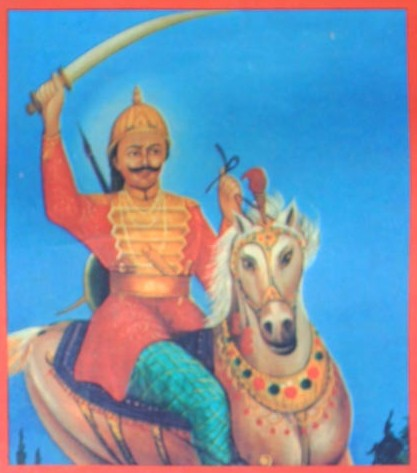 Raja Nahar Singh (6 April 1821 – 9 January 1858), was a King from Tewatia Jat gotra, of the princely state Ballabhgarh in Faridabad District in Haryana, India. The forefathers of Raja Nahar Singh had built a fort in Faridabad around 1739 AD. The small kingdom of Ballabhgarh is only 20 miles from Delhi. The name of the Jat Raja Nahar Singh will always be highly regarded among those who martyred themselves in the 1857 war of independence.